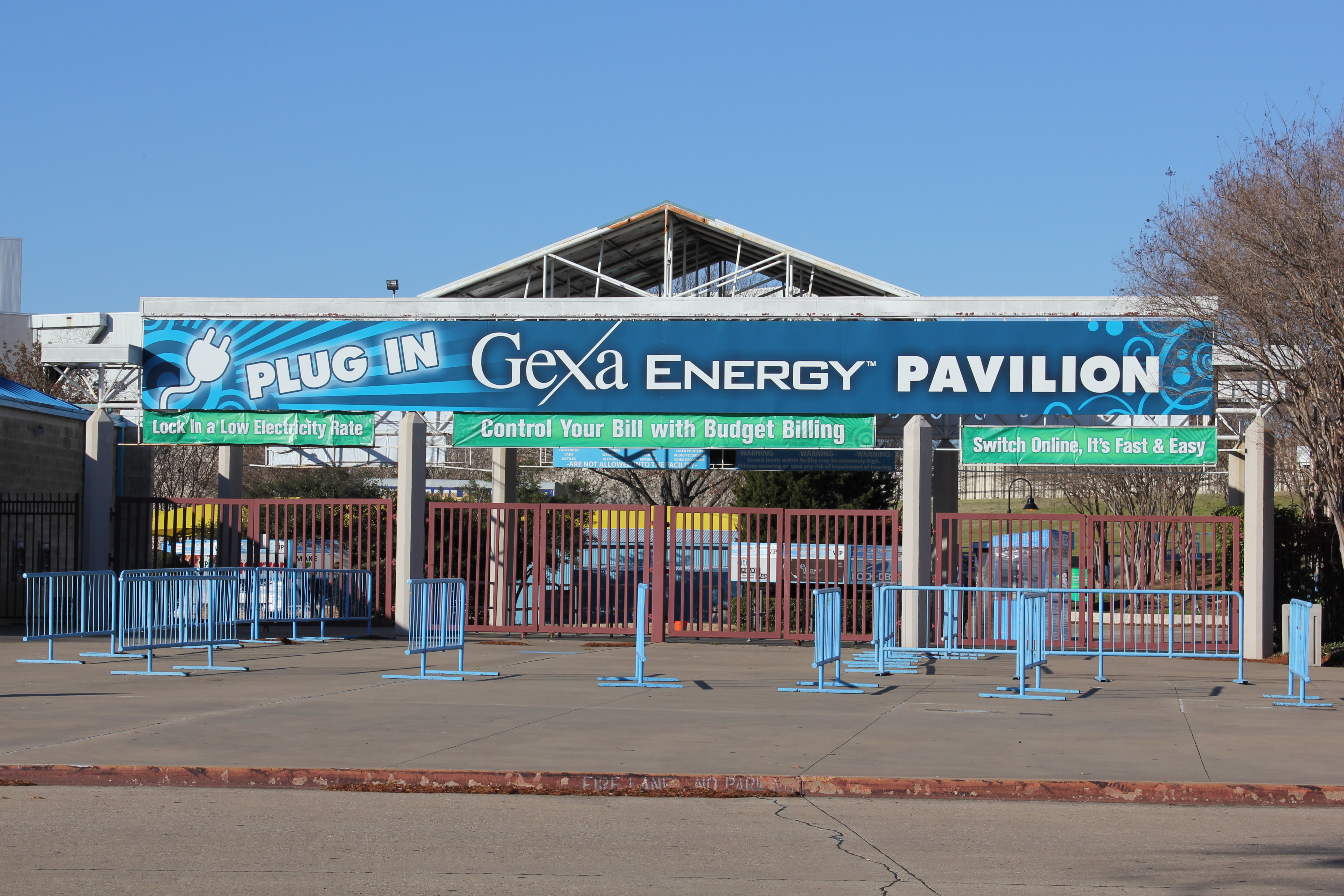 "East" entrance to Gexa Energy Pavilion in Dallas, Texas